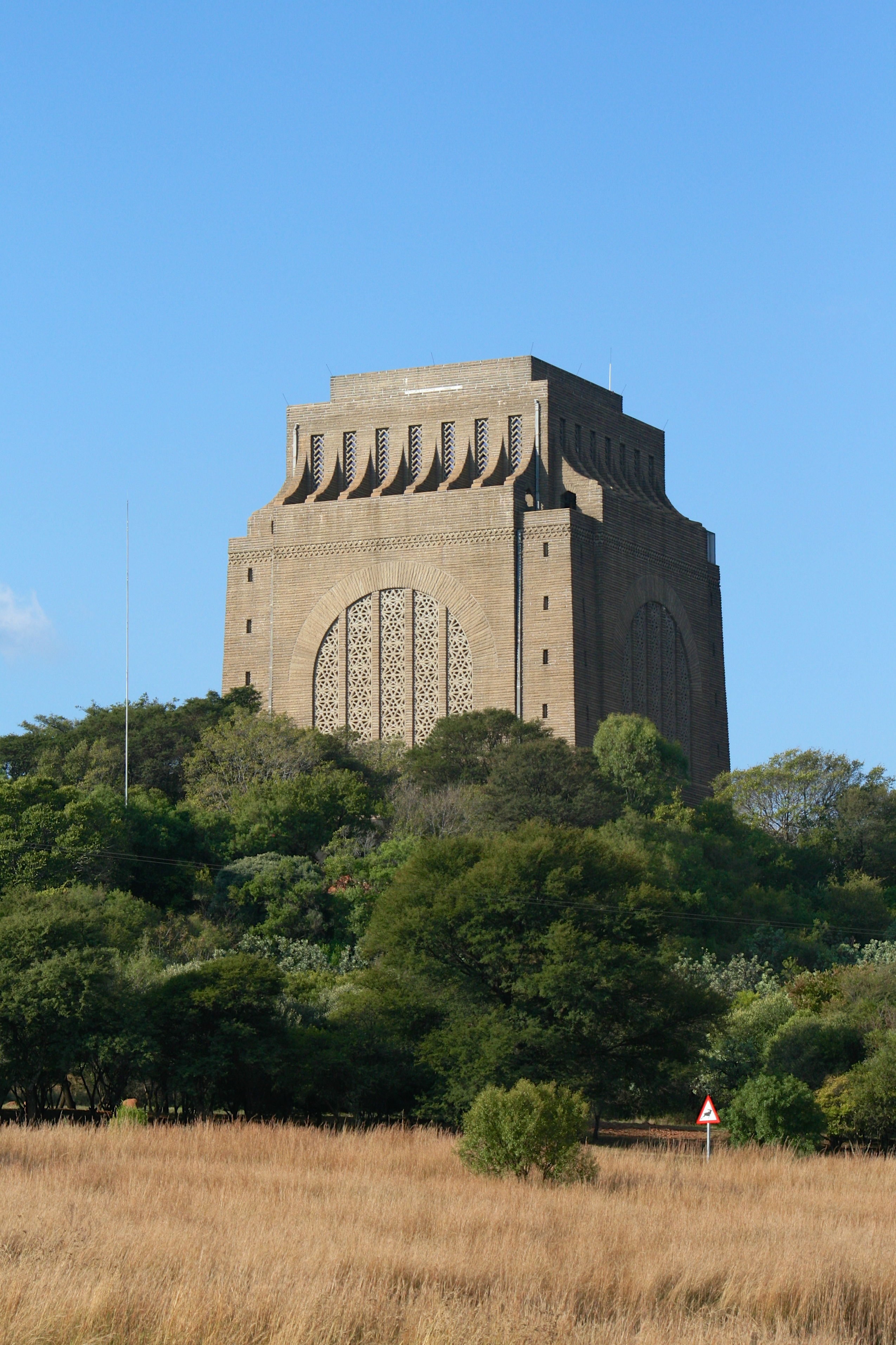 The Voortrekker Monument This media shows a South African Protected Site with SAHRA file reference 9/2/258/0097.